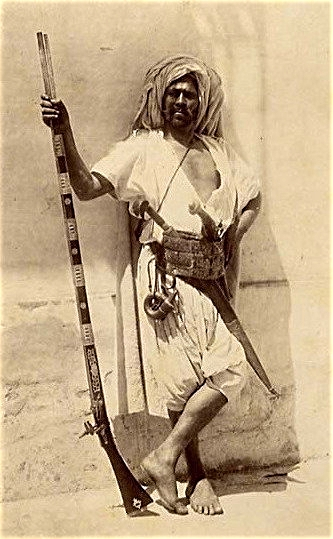 A Tunisian resistant in the 1900's